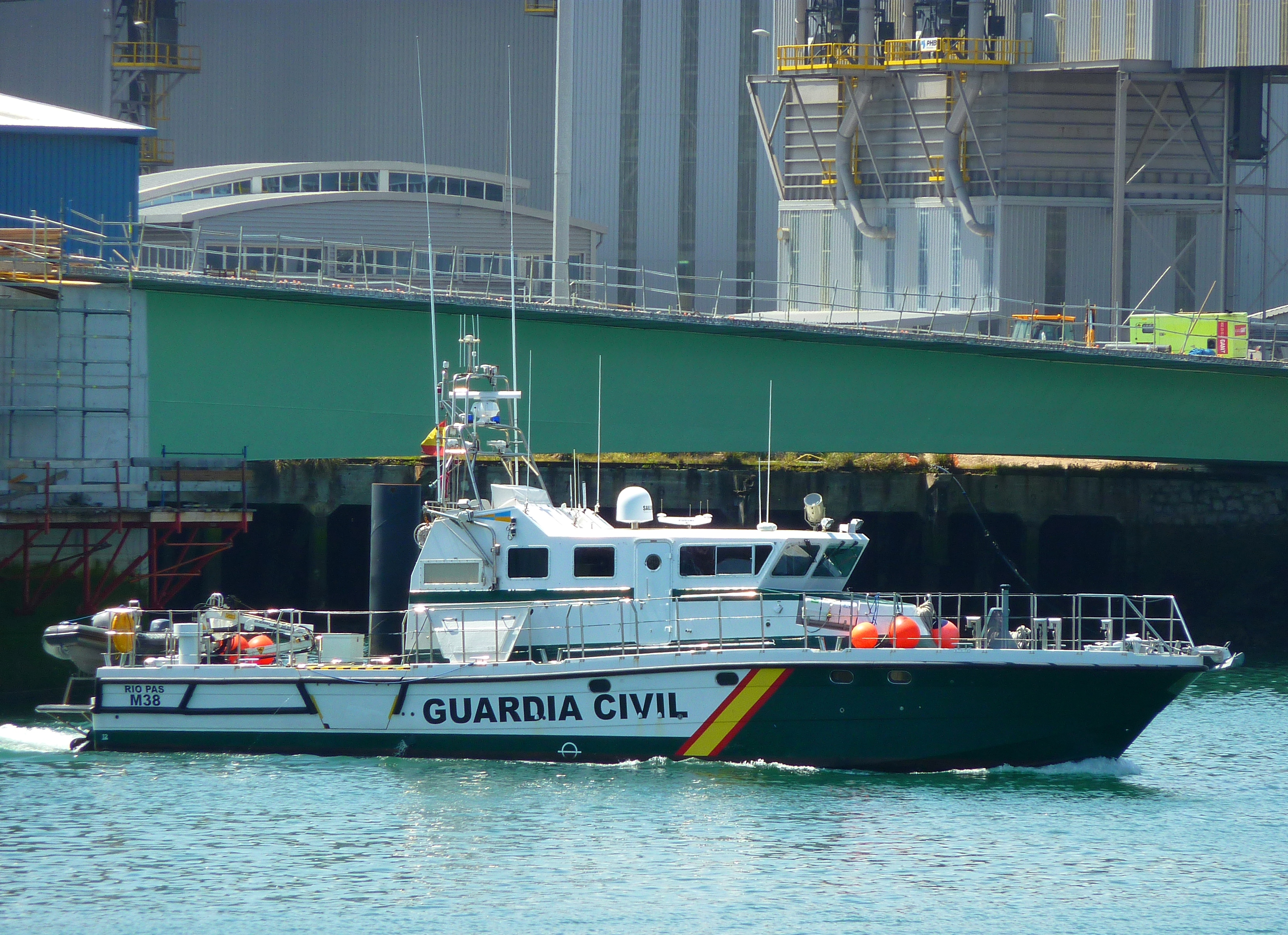 "Río Pas" patrol craft of the Maritime Service of the Spanish Civil Guard.